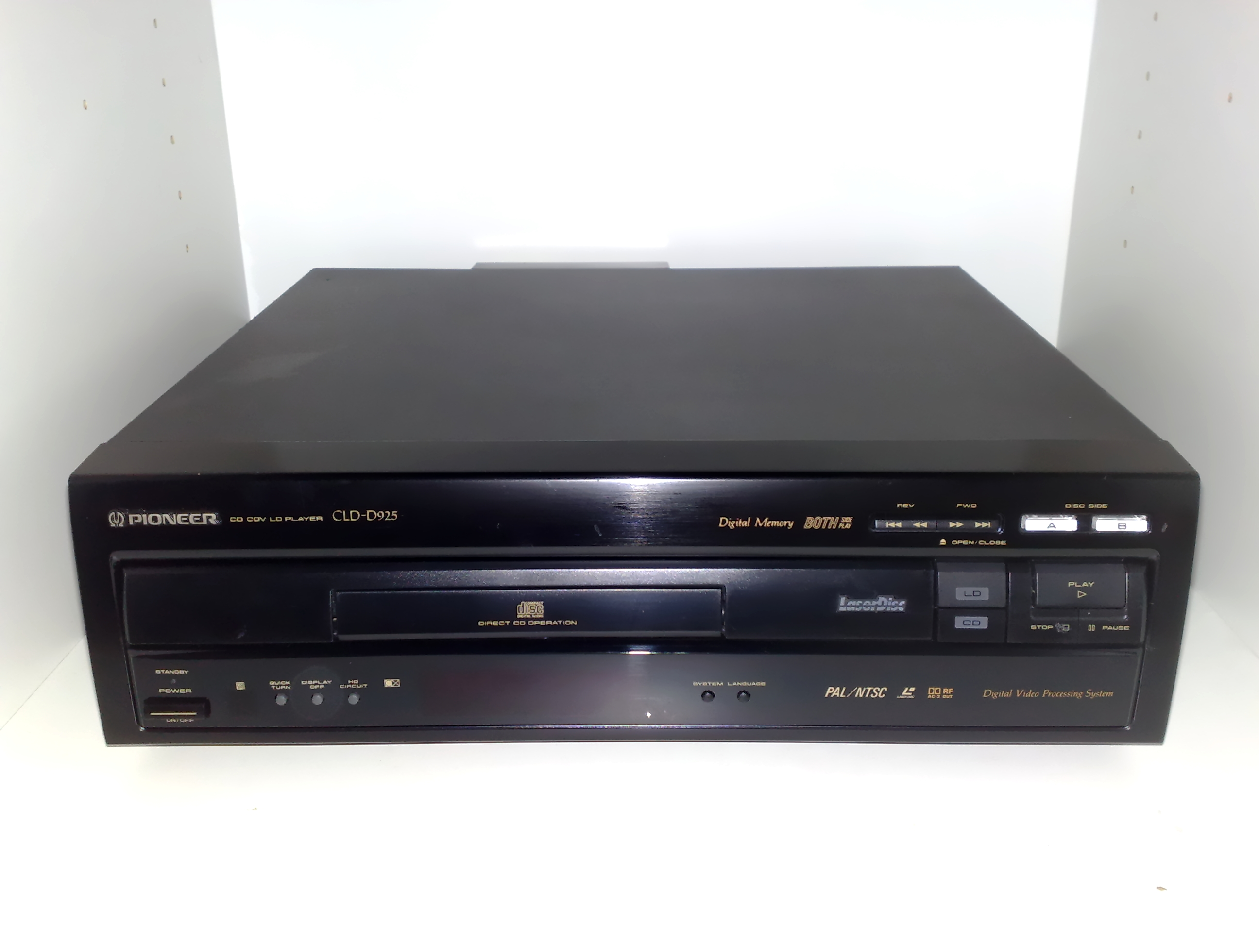 Pioneer CLD-D925 Laserdisc player.